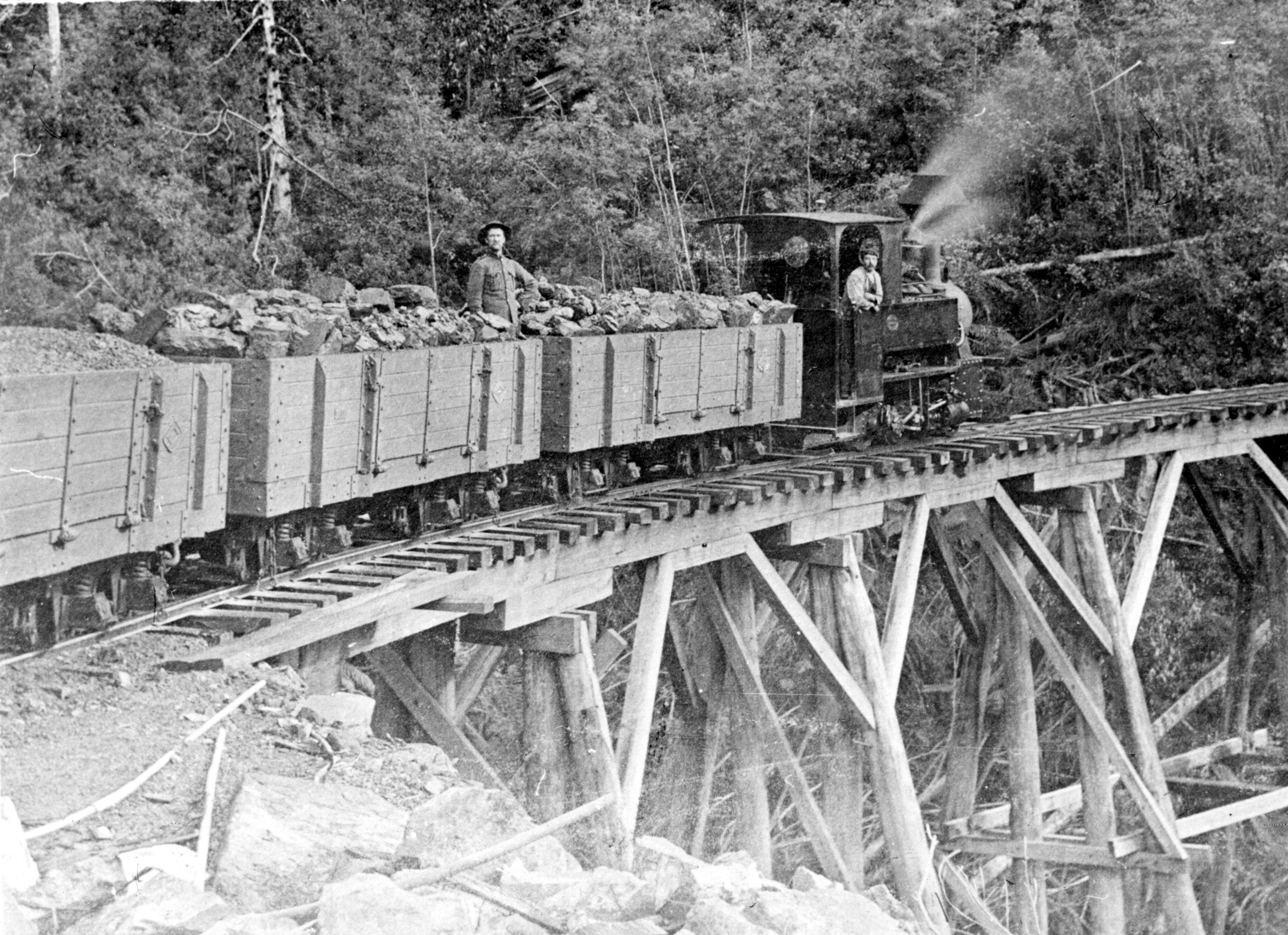 Loaded coal train heading down hill on the Sandfly Colliery Tramway tailed by the 2-4-0T Krauss locomotive. This line ran from coal mines at Kaoota, in the hills around Sandfly, to Margate, south of Hobart on North West Bay, for shipping. Ted Lidster collection